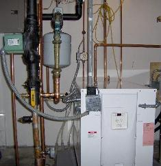 Mark Johnson's Heat pump photo.